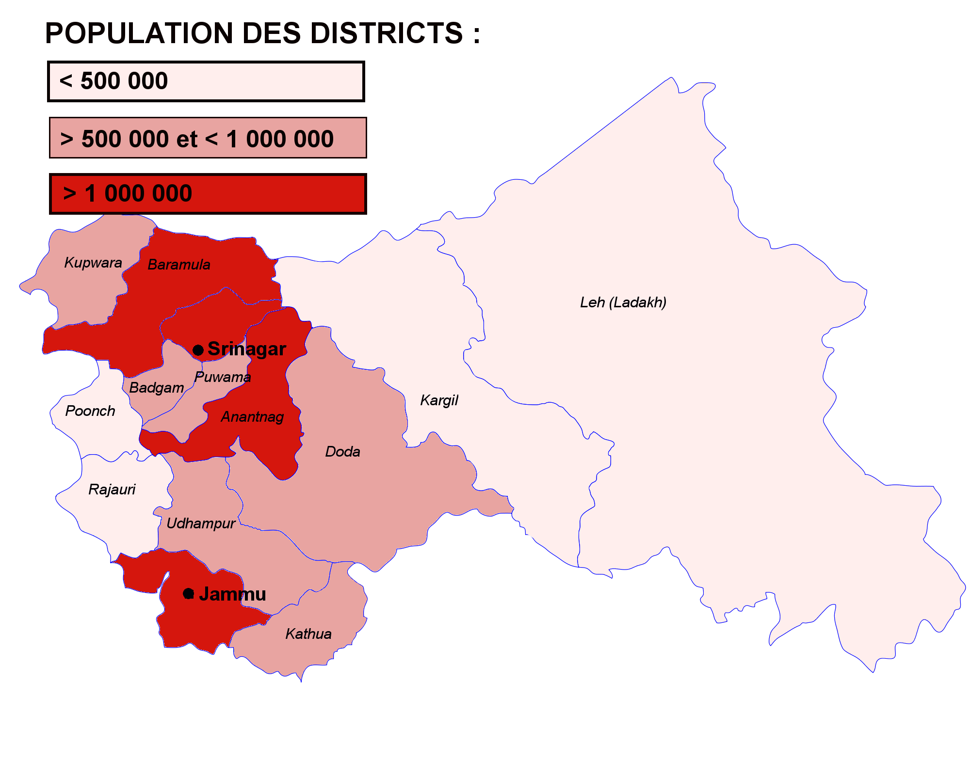 Density of populations in the indian region of Jammu and Kashmir